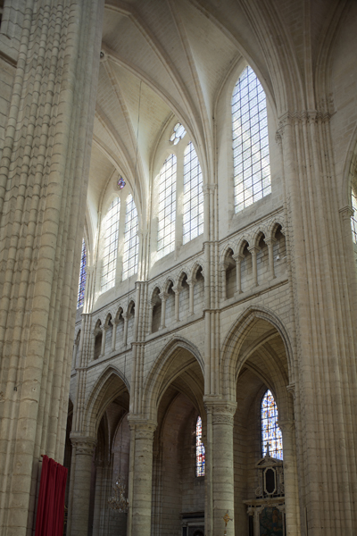 Soissons; Cathédrale; Picardie, Aisne; France; ref: PM_103220_F_Soissons; Cultural heritage; Cultural heritage/Cathedral; Europe/France/Soissons; Wiki Commons; photo: Paul M.R.Maeyaert; © Paul M.R. Maeyaert